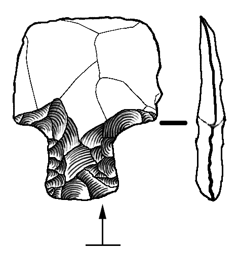 Side notched tang